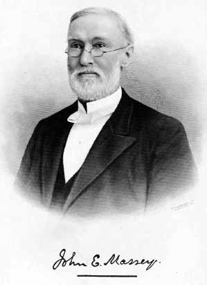 Portrait of John E. Massey